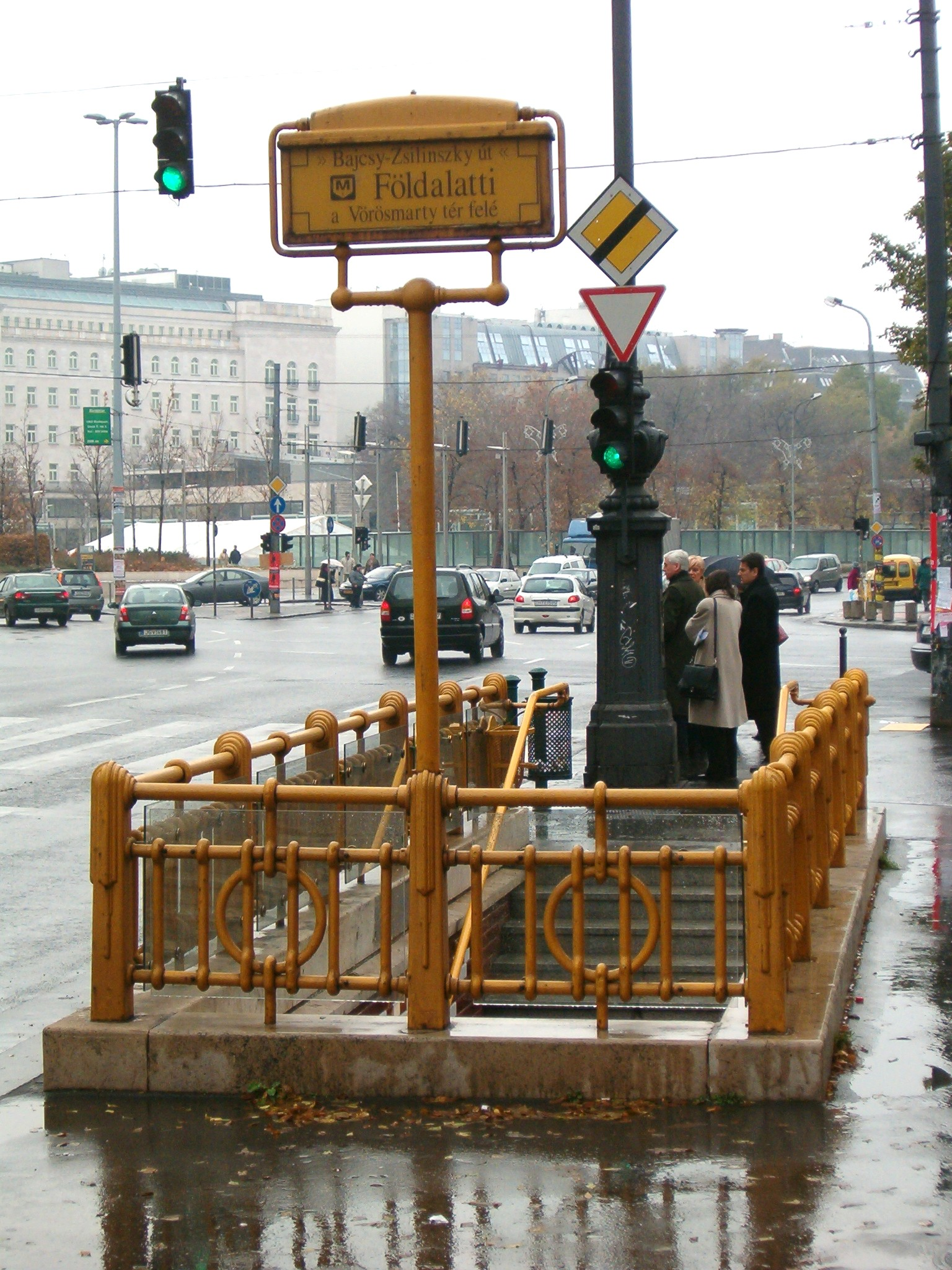 Entrance to M1 metro at Bajcsy-Zsilinszky Road, Budapest, Hungary